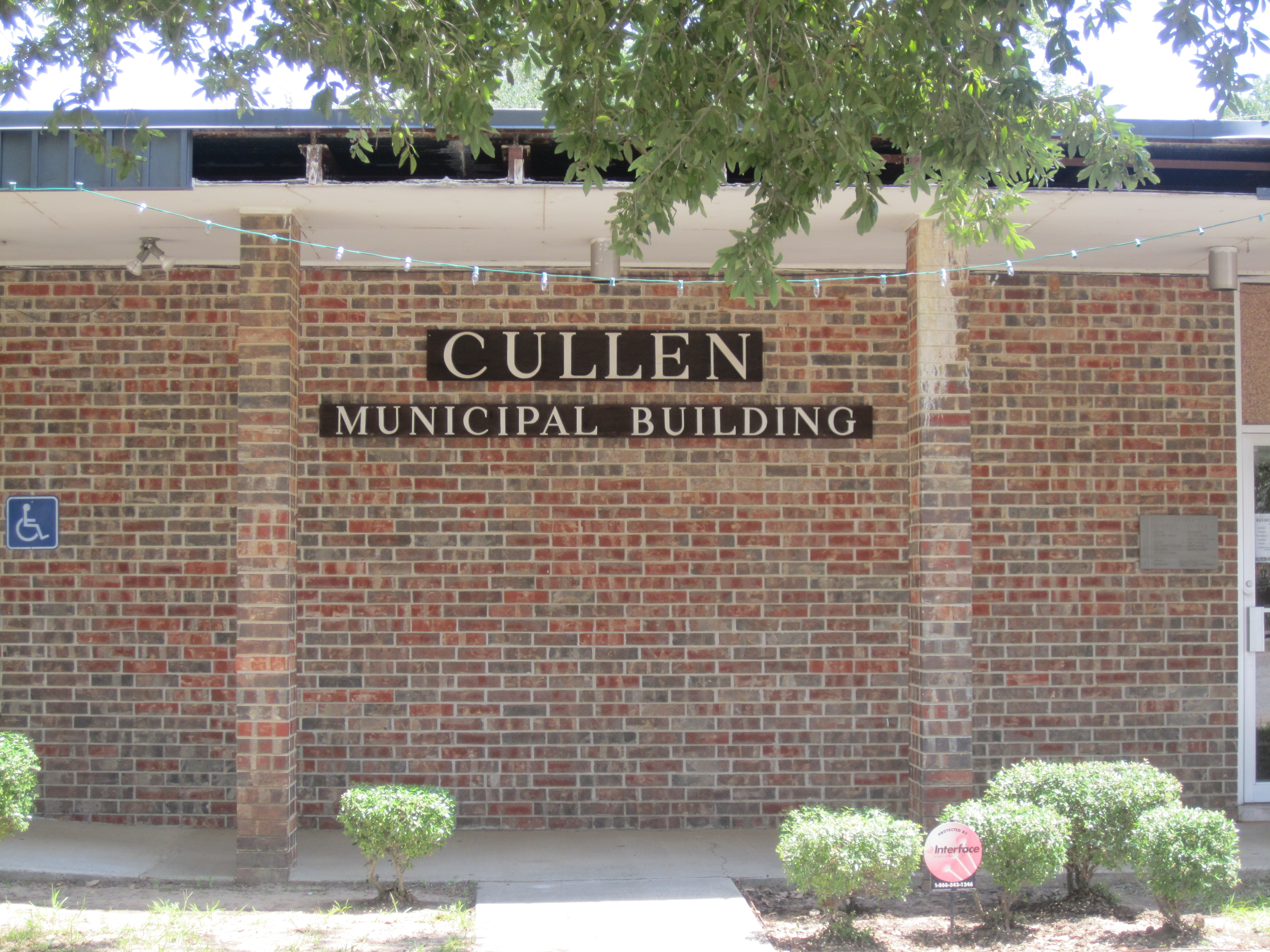 I took photo of Cullen City Hall with Canon camera.